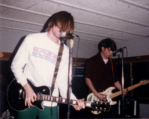 Live show Fall '90